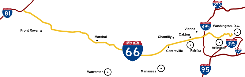 To scale map of Interstate 66 showing DC area interstates and cities along the Interstate 66 corridor.